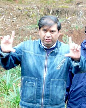 Ravi Chopra in a shooting